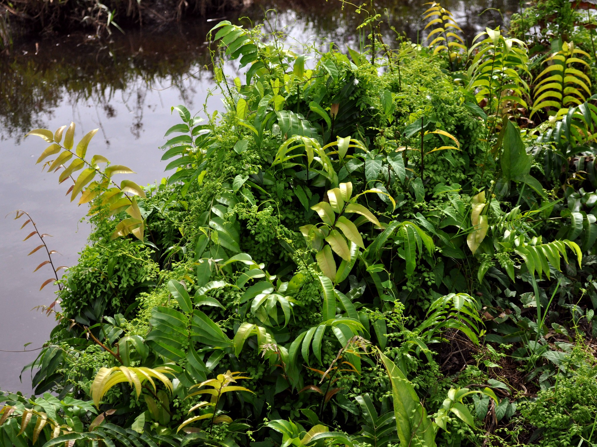 Stenochlaena palustris, mixed with Lygodium scandens (much smaller leaves), at the bank of drainage canal of peat swamp near Galing, West Kalimantan, Indonesia.